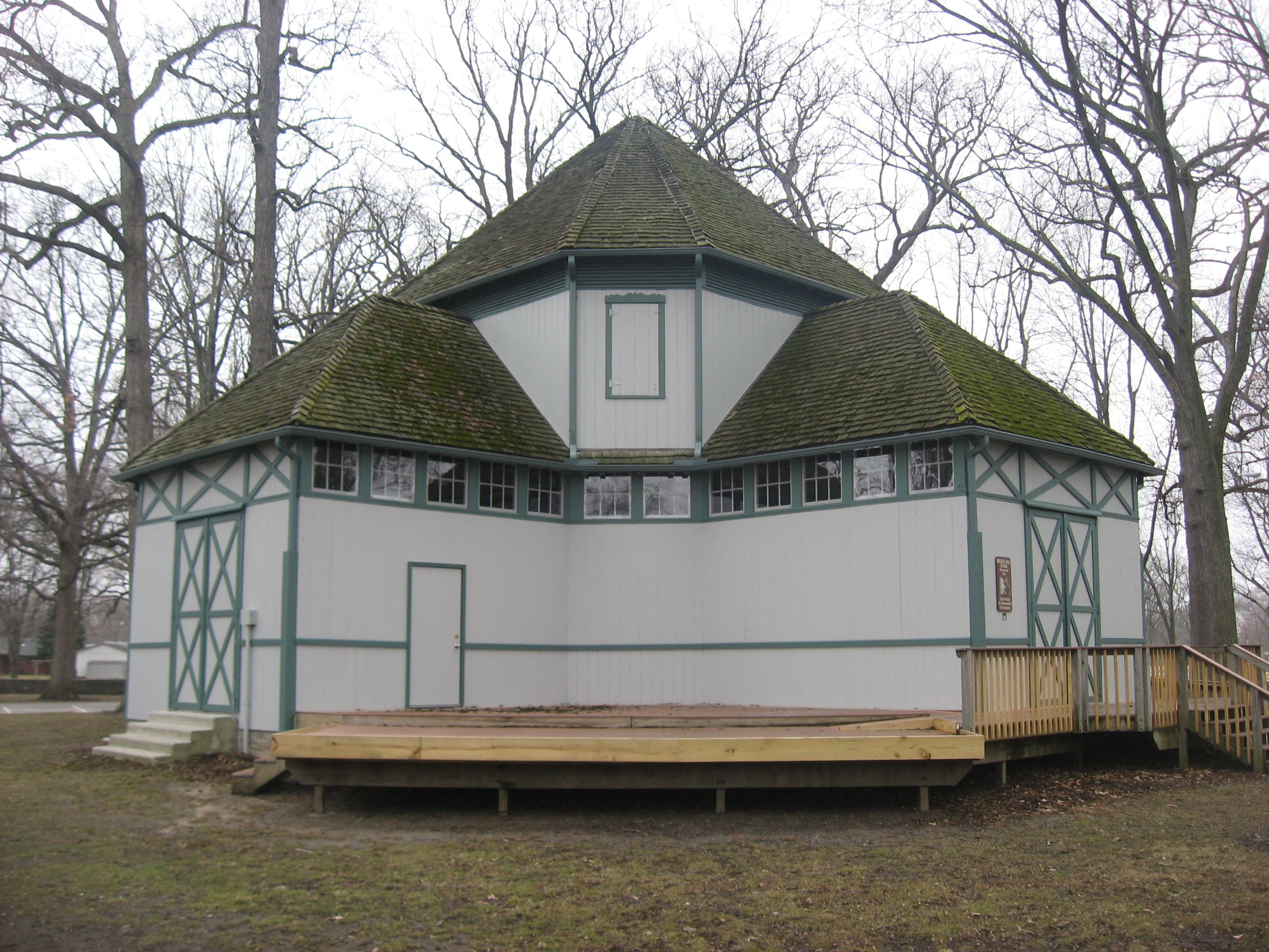 Eastern front of Floral Hall, located in City Park in Bowling Green, Ohio, United States. Built in 1884, it is listed on the National Register of Historic Places.